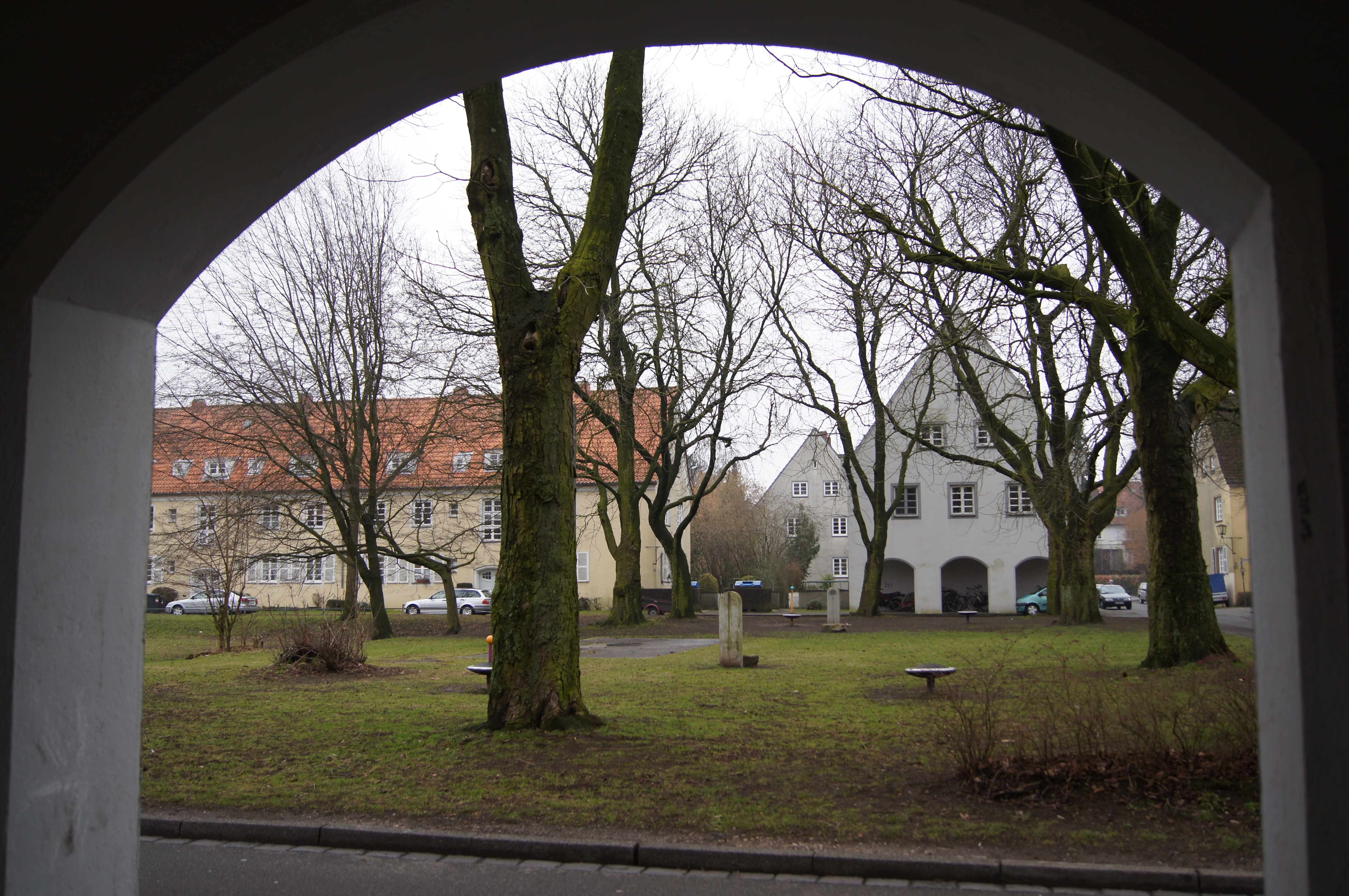 Settlement Grüner Grund/Habichtshöhe (1924-1931) uses ideas of the British garden city movement. Architect: Gustav Wolf. Mustersiedlung Grüner Grund/Habichtshöhe (1924-1931) nimmt Gedanken der britischen Gartenbewegung auf. Architekt: Gustav Wolf.